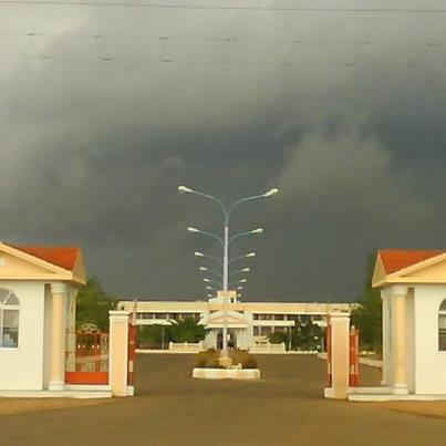 Entrance of Anna University Chennai::Regional Office Trichirappalli